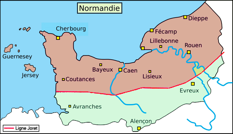 The Joret line as identified in 1883 by Charles Joret (1829 – 1914).